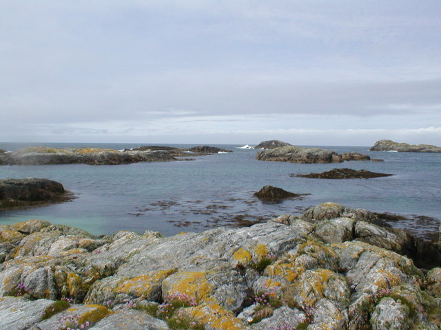 view west across skerries to the open sea photo taken on a visit to skerries off the north tip of Coll